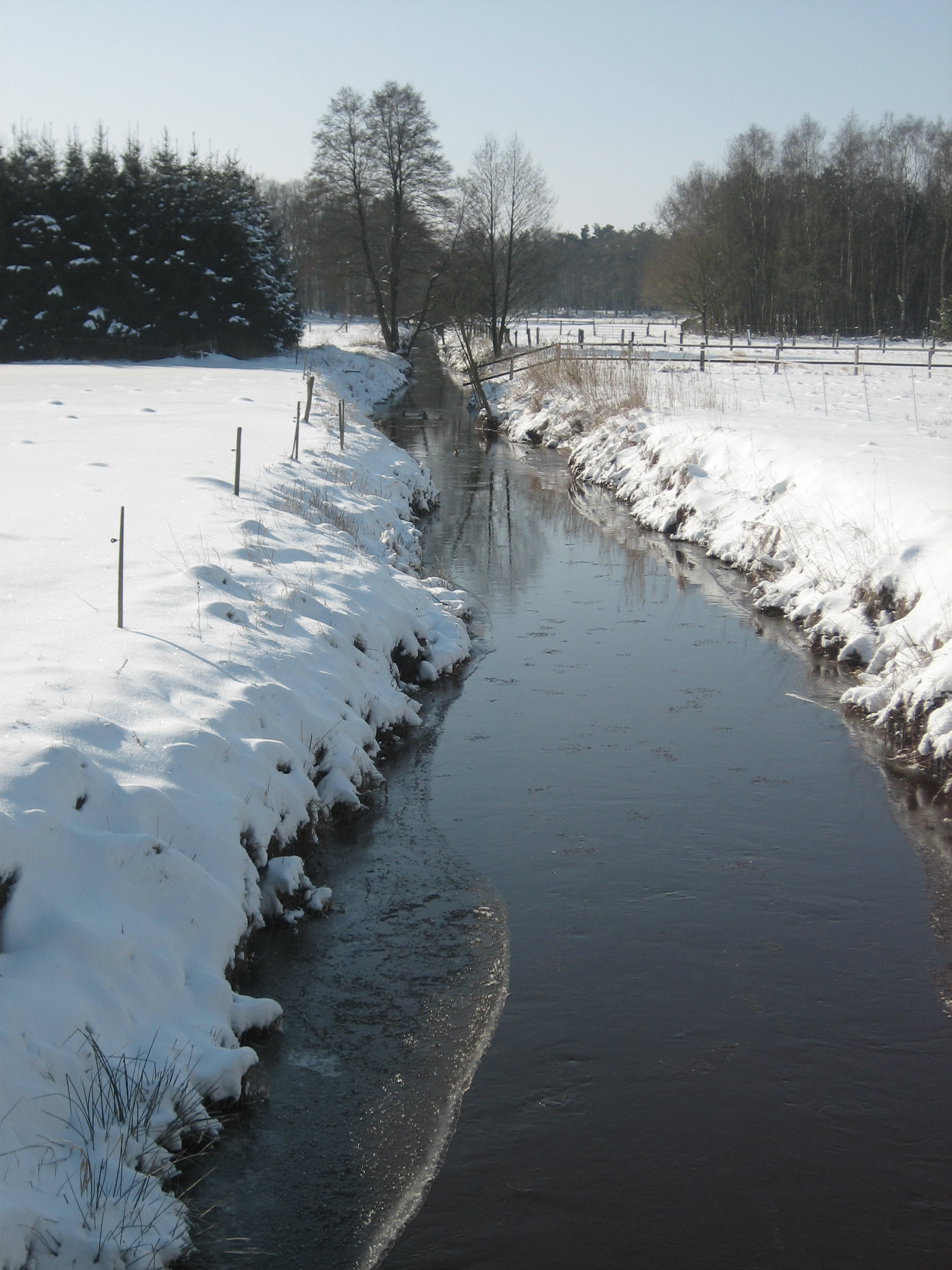 Ramme river in Lower Saxony, northern Germany near the village of Nüttel